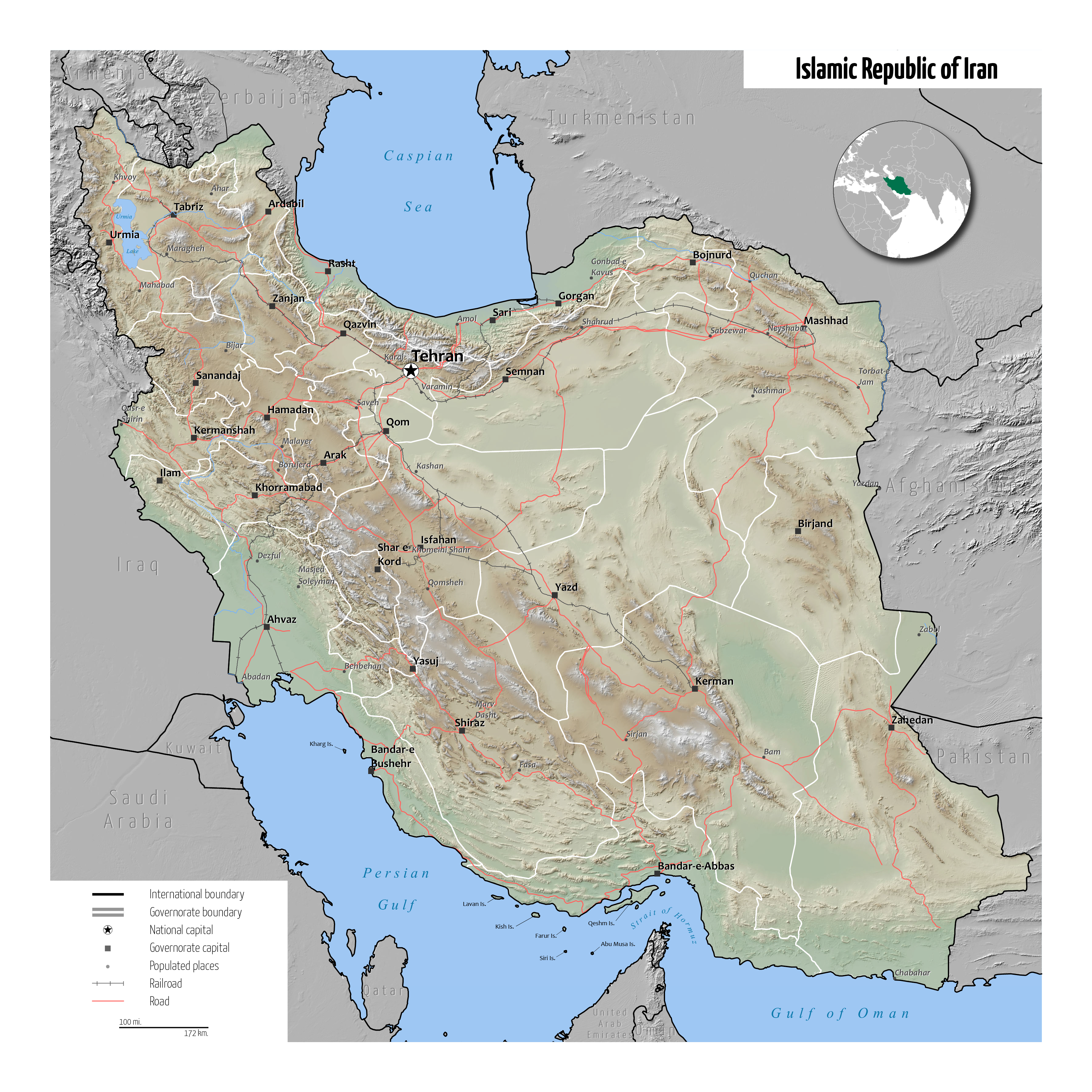 Projection: Custom Sources: CGIAR-CSI SRTM v4.1 (90m); Natural Earth Data